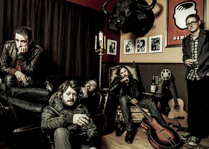 Fever Marlene is a band from Milwaukee, Wisconsin